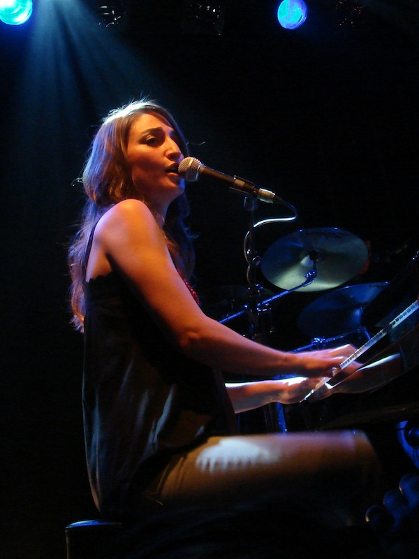 Sara Bareilles live at De Melkweg Amsterdam, the Netherlands, 16th June 2008